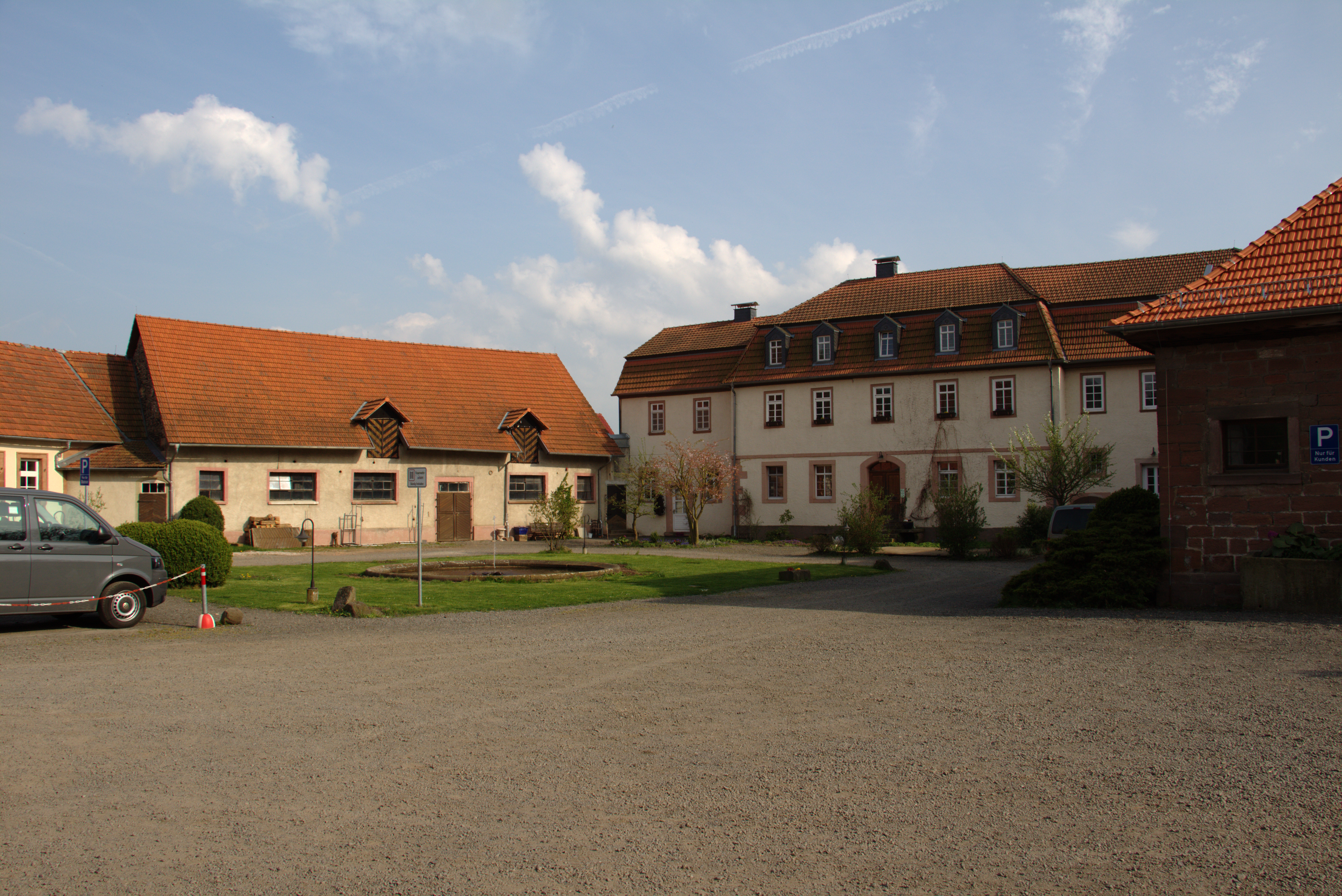 Castle (adjoining buildings) in Stockhausen, Herbstein, Hessen, Germany